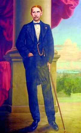 Oil portrait of Juan Pablo Duarte, founder of the Dominican Republic.